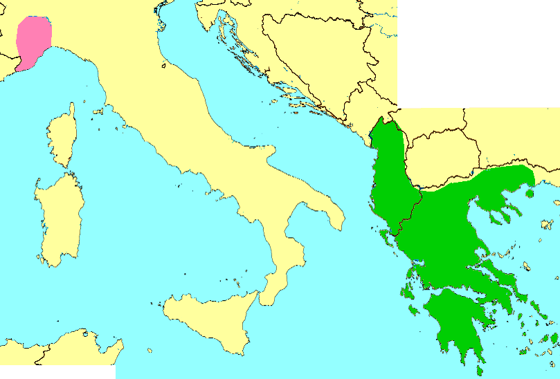 Distribution of Pelohylax kurtmuelleri